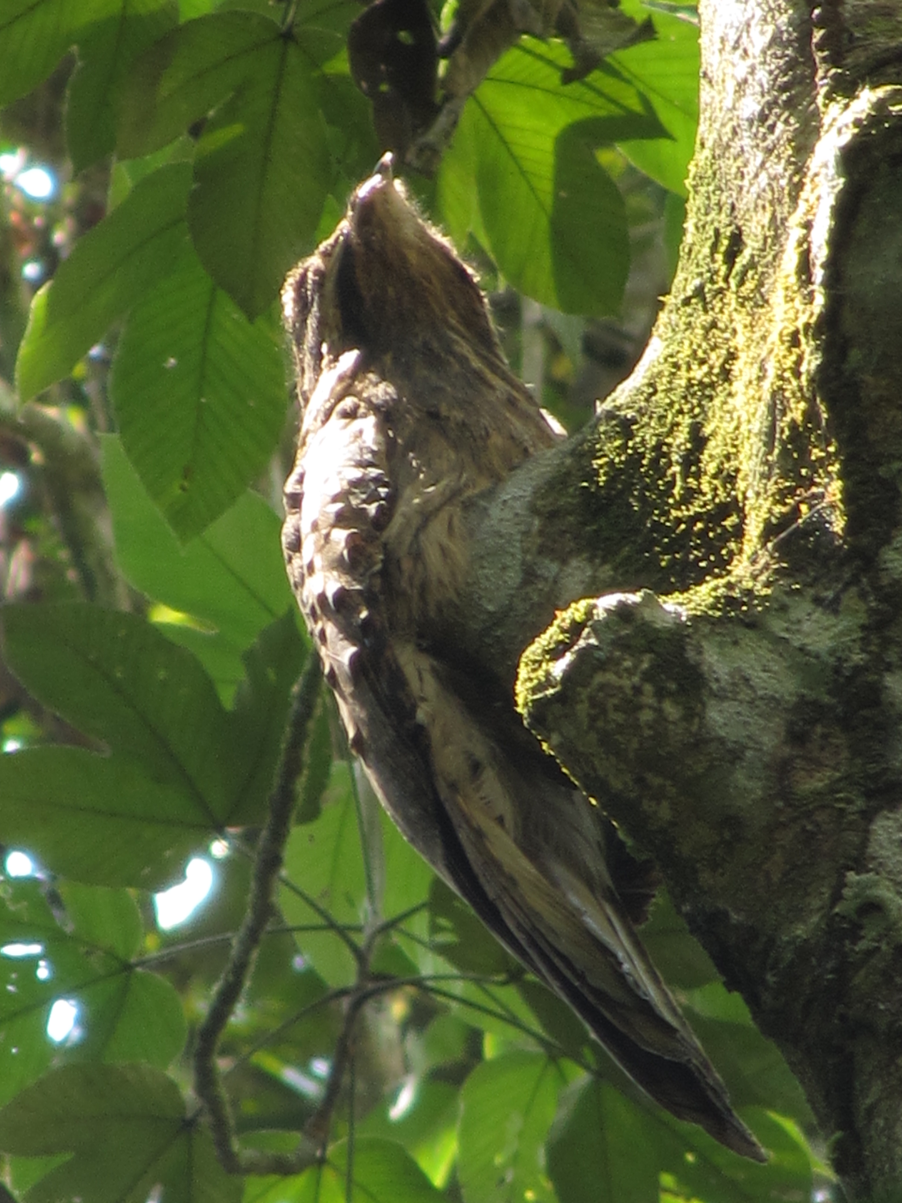 Long tailed Potoo, Peru, Amazon, Photo by Lee R. Berger